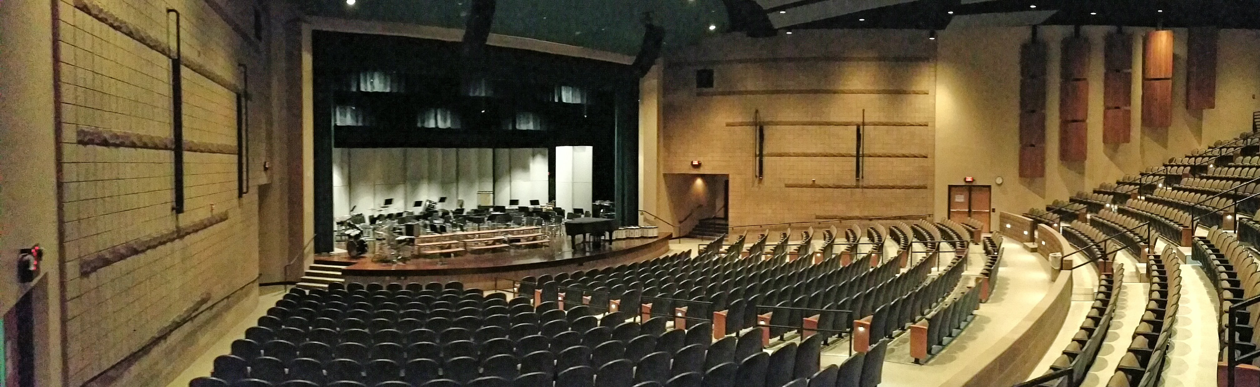 Side View